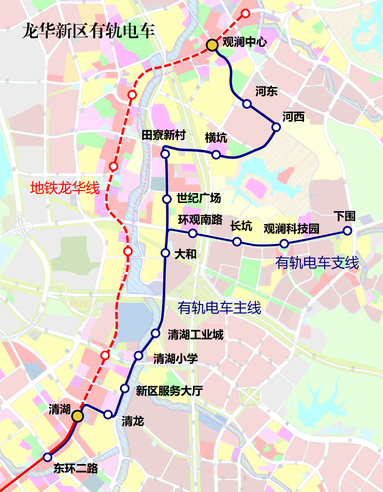 Geographically accurate map of the Longhua Tram. Background map taken from File:中部组团土地利用.jpg